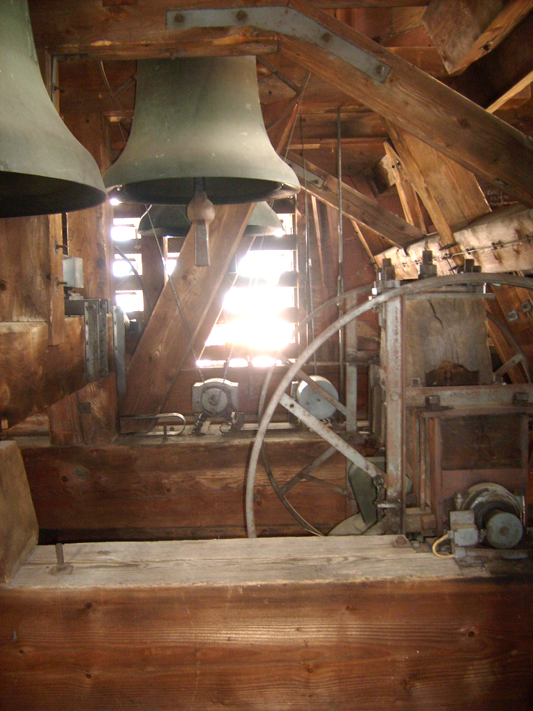 Belfry at the Freiburger Münster